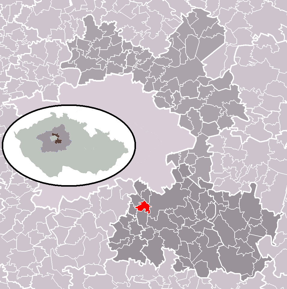 Location of Modletice municipality within Prague-East District and administrative area of Říčany as a Municipality with Extended Competence.